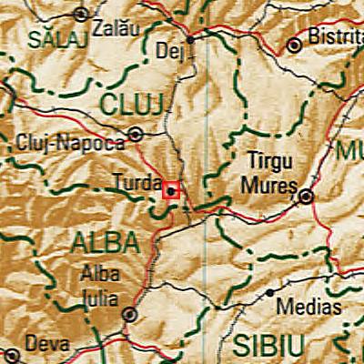 Map of Turda Municipality, Romania.